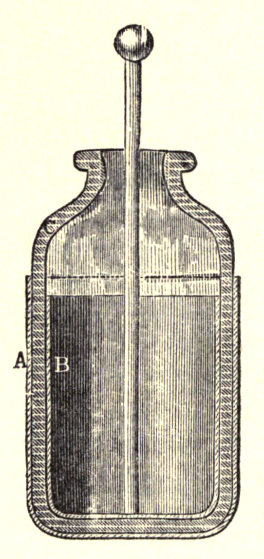 Drawing of a Leyden jar, sectioned longitudinally through the axis to show the construction. It consists of a glass jar (C), coated on the outside (A) and inside (B) with conducting metal foil. An area around the mouth of the jar is left free of foil to prevent the charge from arcing between the foils. A metal electrode in contact with the inner foil sticks up out of the jar, so it can be charged with electricity. Alterations: removed caption.